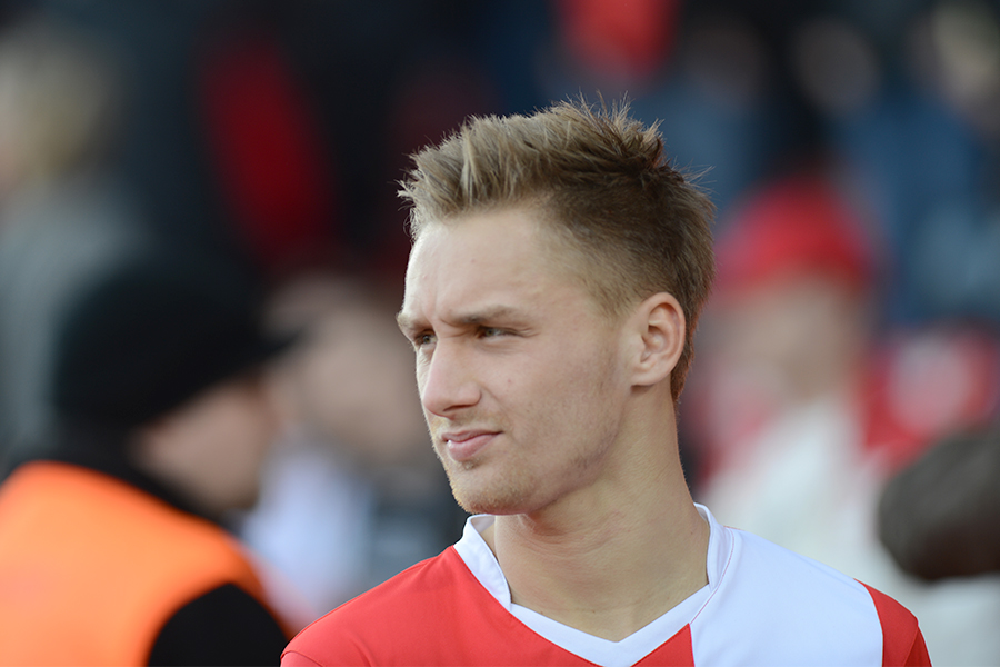 Björn Jopek playing for Union Berlin